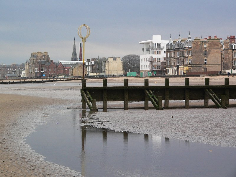 Portobello Beach, Portobello, Edinburgh, Scotland